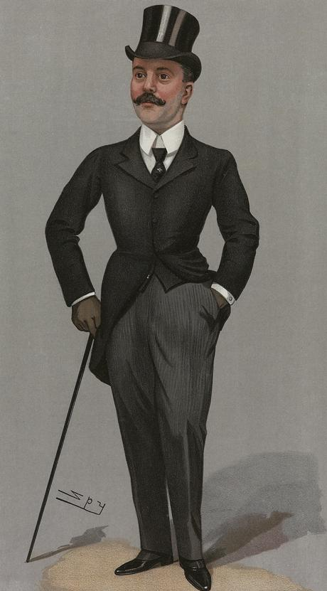 Men of the Day No.779: Caricature of The Hon Sidney Robert Greville CB (1866-1927). [1][2]. Caption reads: "A Private Secretary"